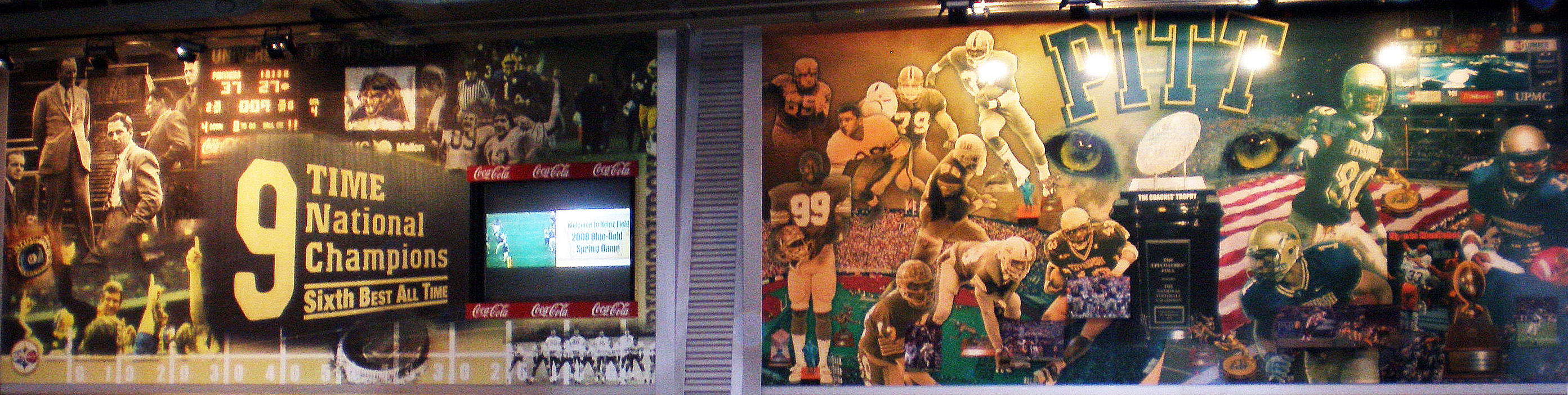 Pitt murals over the concession stand in the Great Hall at Heinz Field.